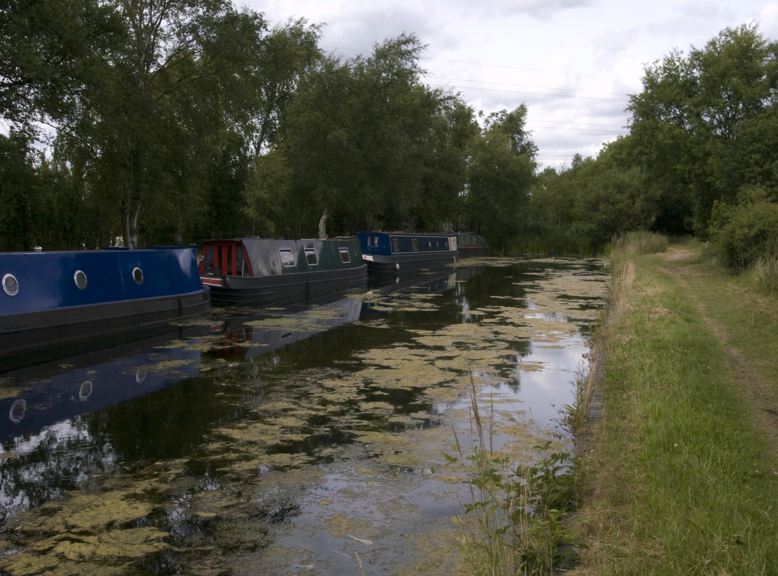 The current northern terminus of the Cannock Extension Canal where it reaches the A5 road.